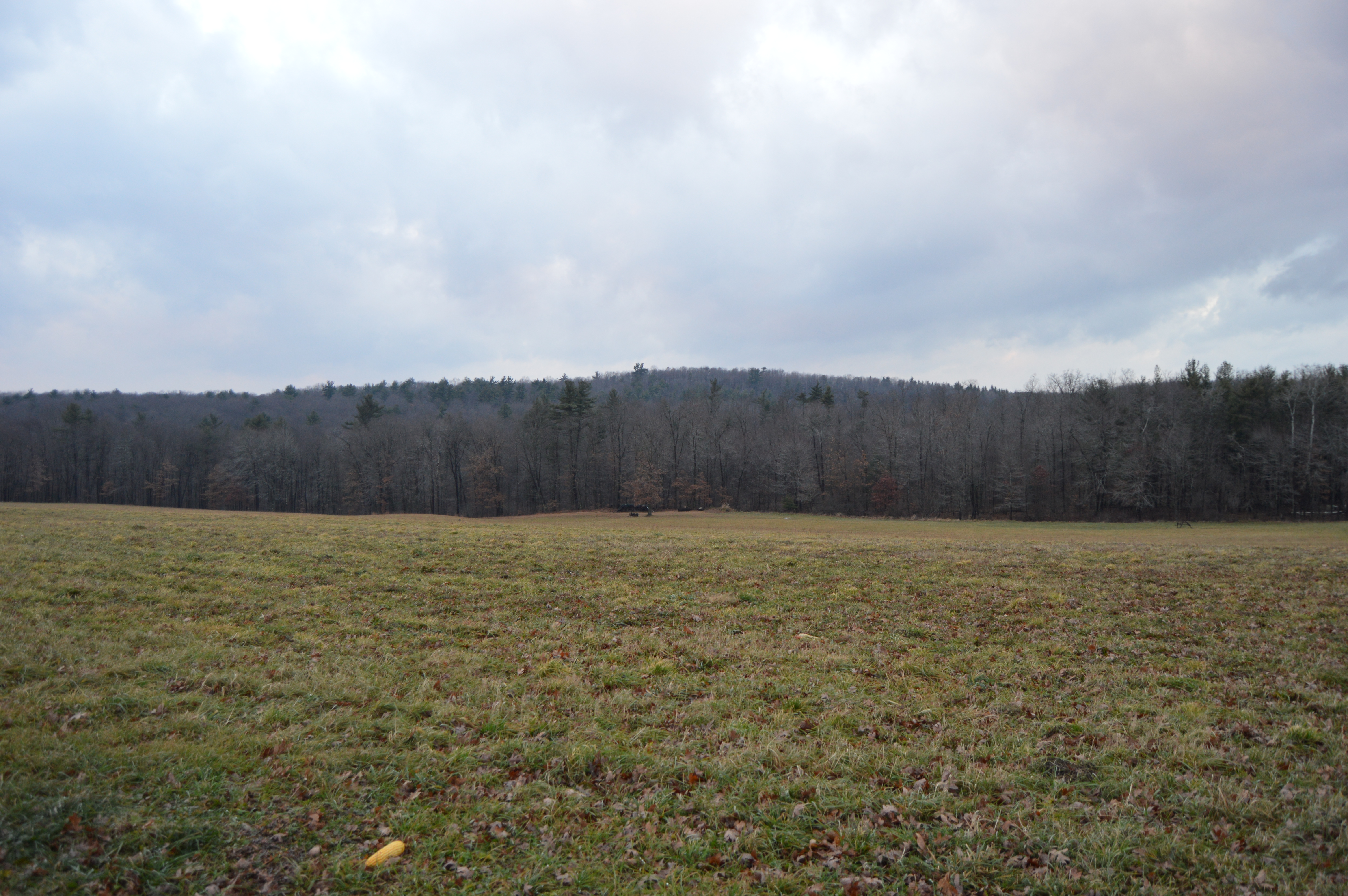 Fields in the southwestern corner of Knox Township, Clarion County, Pennsylvania, United States, seen looking northwest from the junction of Hearst and Paint Mills Roads.